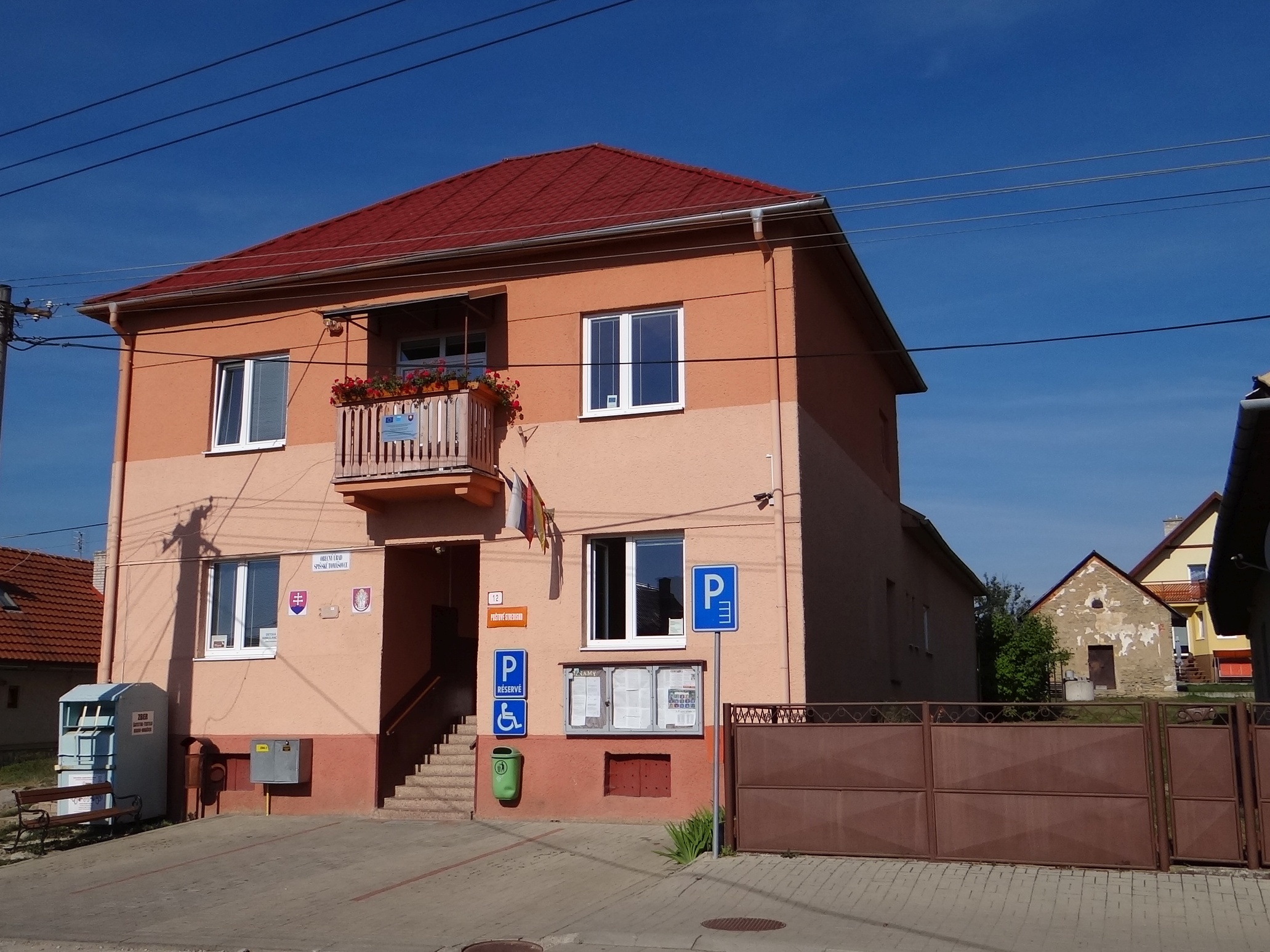 Municipal office of Spišské Tomášovce, Slovakia